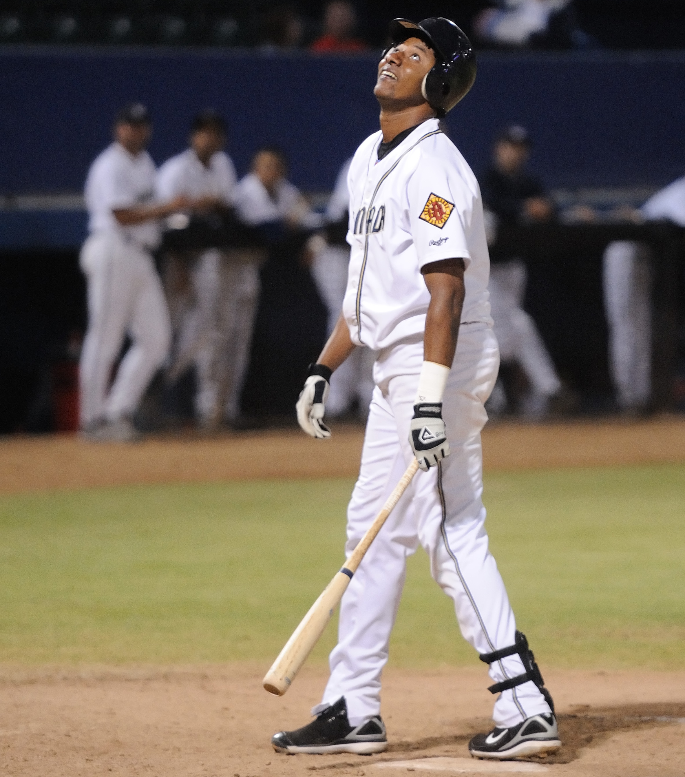 Napoleon Calzado at bat for the Long Beach Armada during a 2009 game